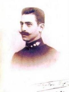 Pavlos Melas (March 29, 1870 – October 13, 1904) Greek officer of the Hellenic Army